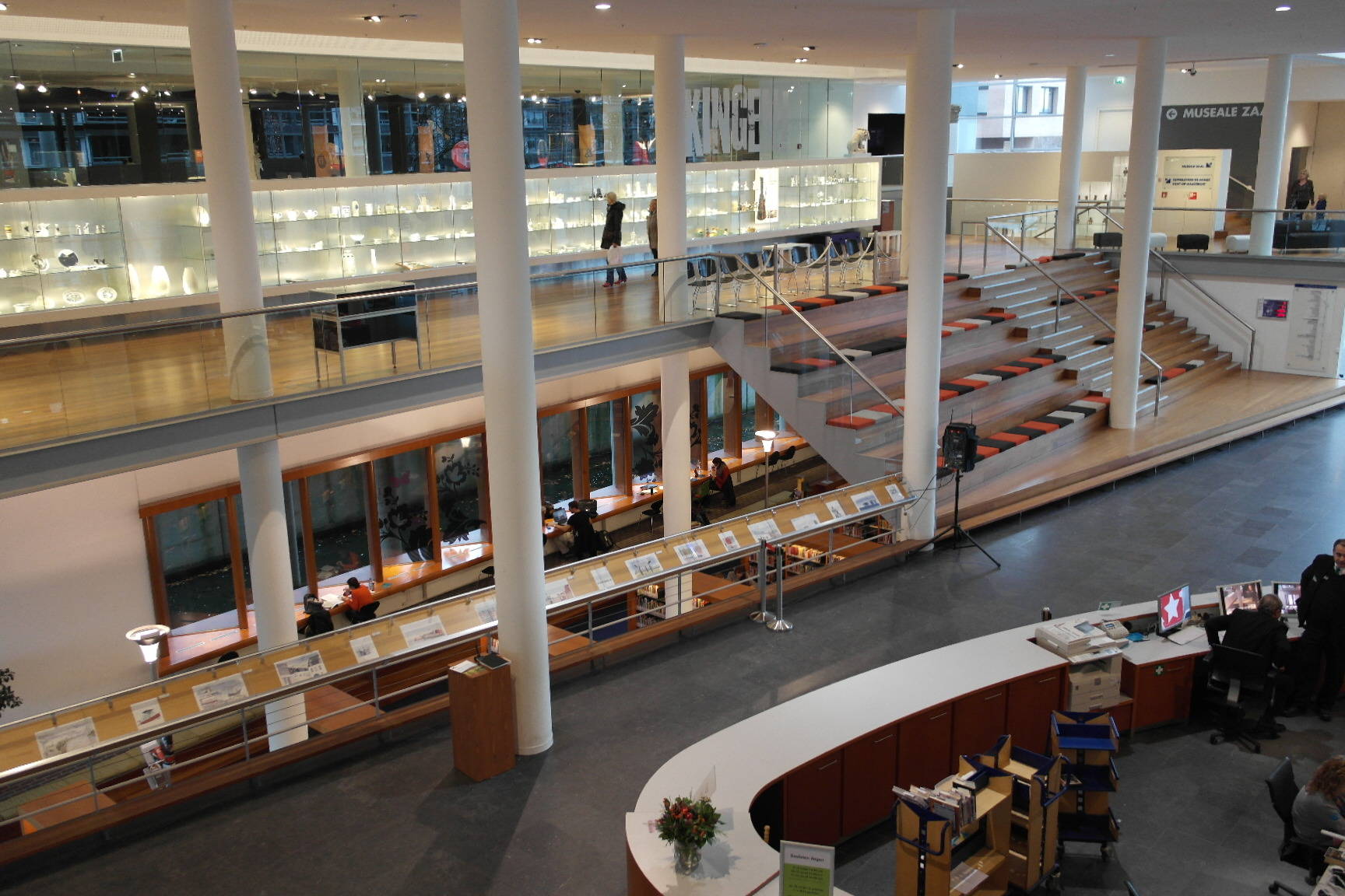 Maastricht, the Netherlands. View of the entrance hall, basement library and mezzanine exhibition space in Centre Céramique.